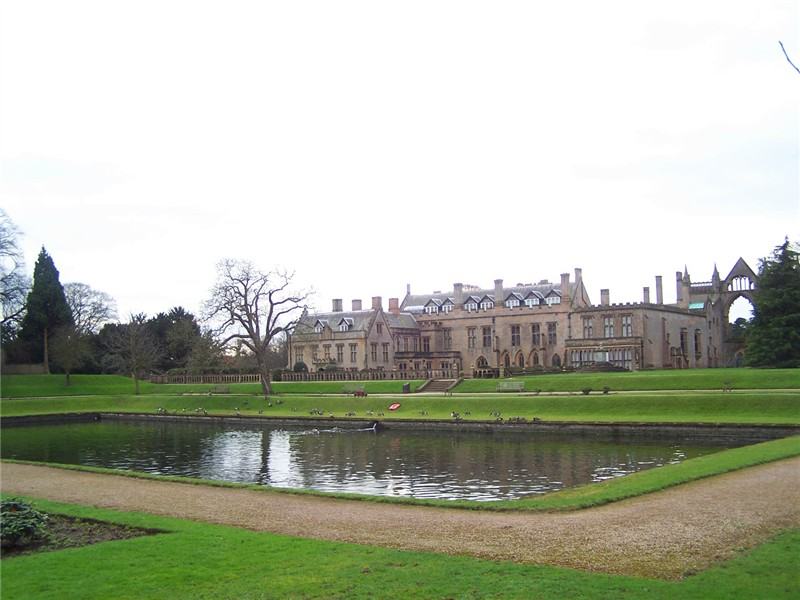 Newstead abbey